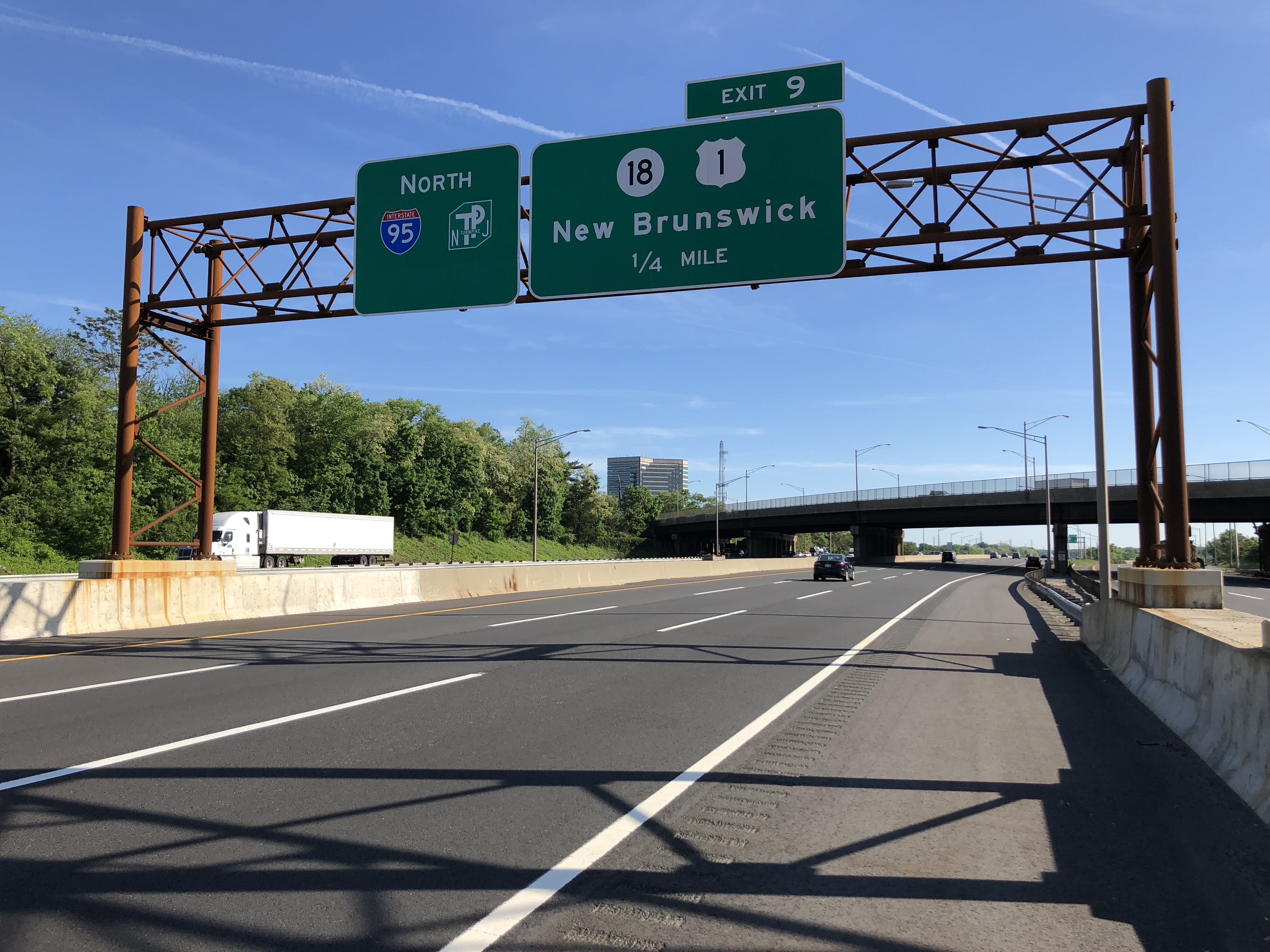 View north along Interstate 95 (New Jersey Turnpike) just south of Exit 9 (New Jersey State Route 18, U.S. Route 1, New Brunswick) in East Brunswick Township, Middlesex County, New Jersey